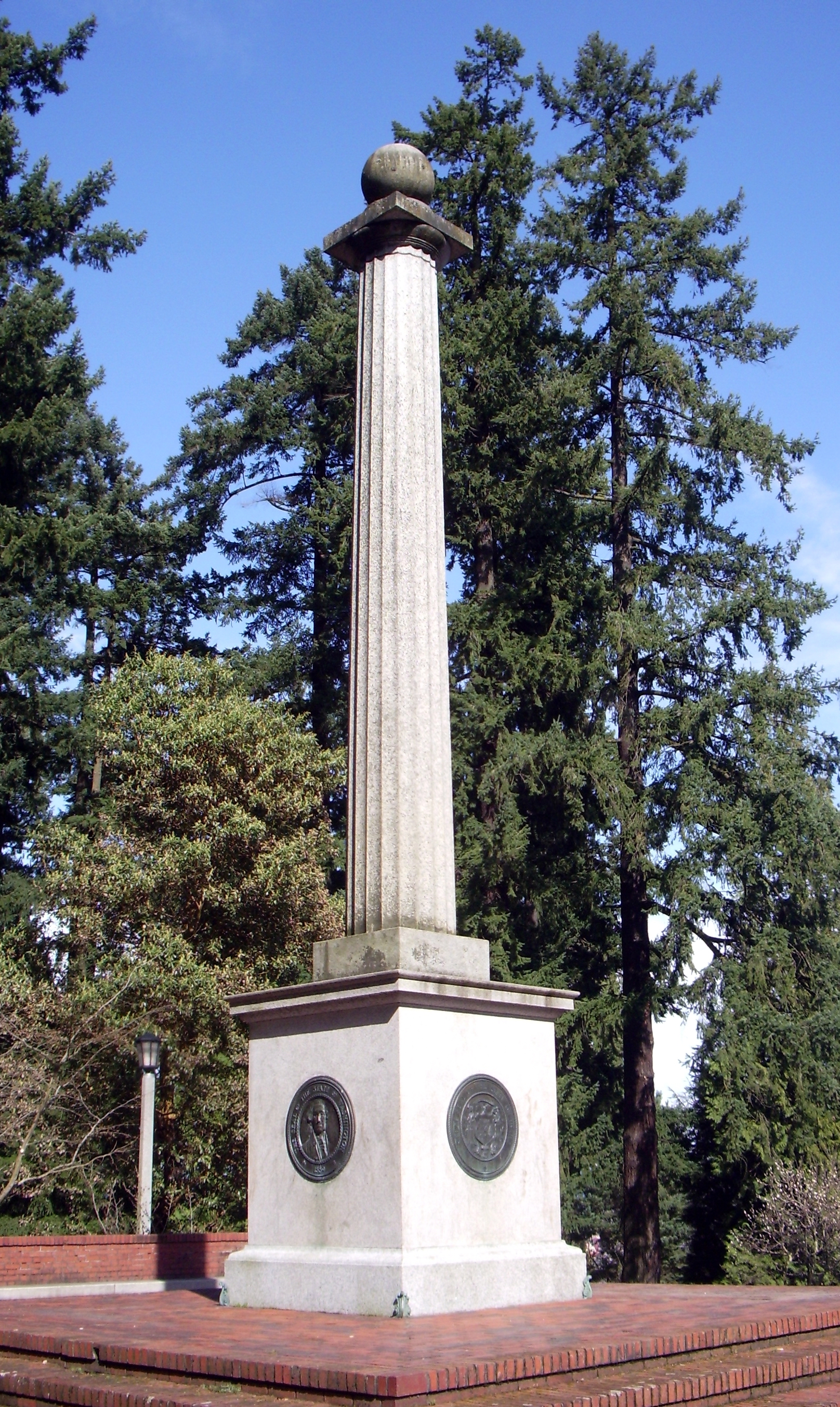 Lewis and Clark Expedition memorial at the entrance to Washington Park, Portland, viewed from the southwest. The plaque on the base reads Erected by citizens of Oregon to commemorate the achievements of captains Meriwether Lewis and William Clark who, with the encouragement and under the direction of the president of the United States Thomas Jefferson, started from St. Louis May 14, 1804 and through many hardships penetrated the vast continental wilderness to the Pacific Ocean at the mouth of the Columbia River and returning September, 1806, gave to the pioneers a pathway, and to the nation, the Oregon Country. Begun 1904 Dedicated 1906 (punctuation and mixed case added)